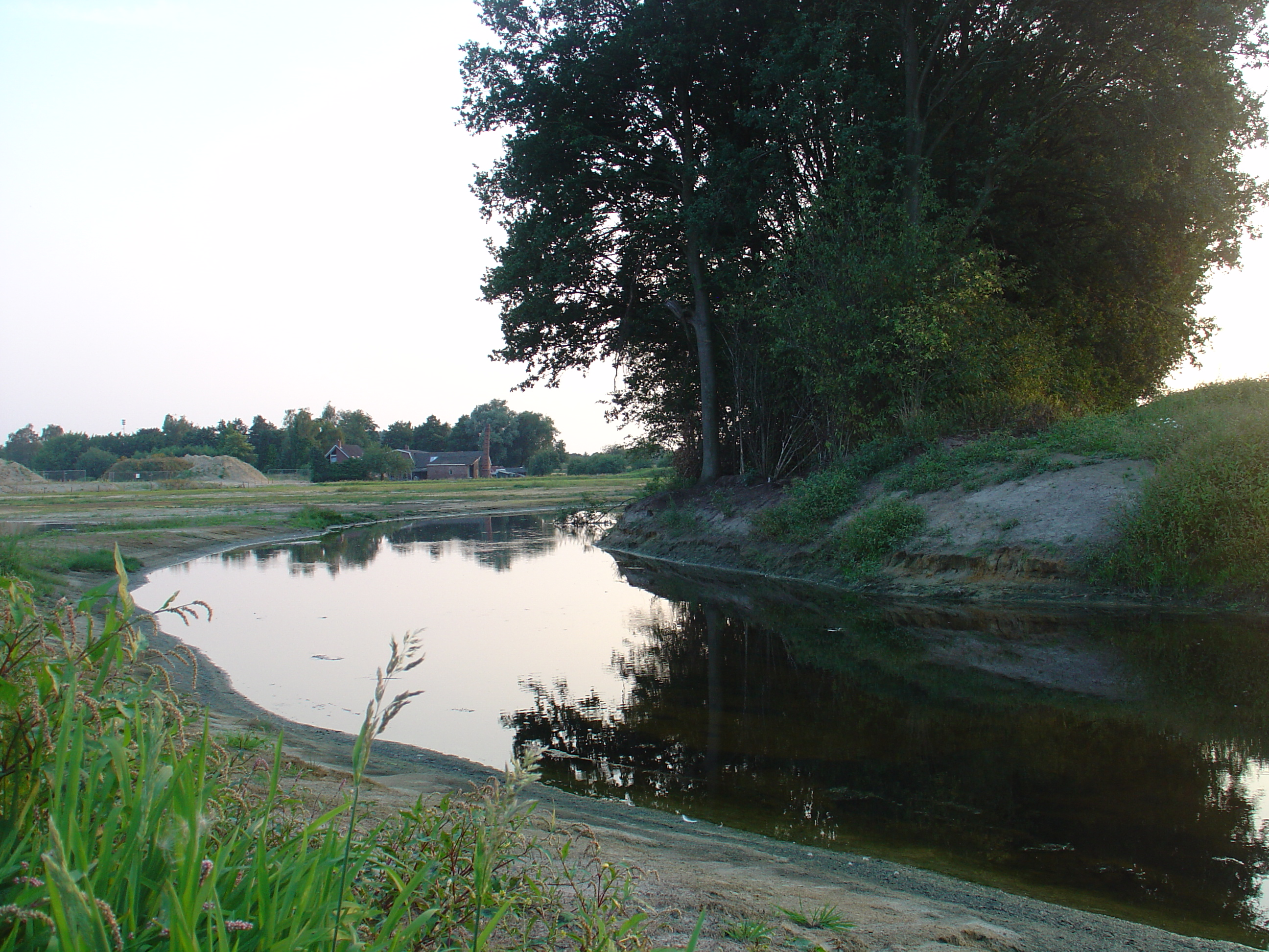 The river Slinge/Groenlose Slinge, just north of Groenlo, Netherlands, after major restorations to the flow path of the river. Canalisations of the 20th century have been undone, new meanders have been created.